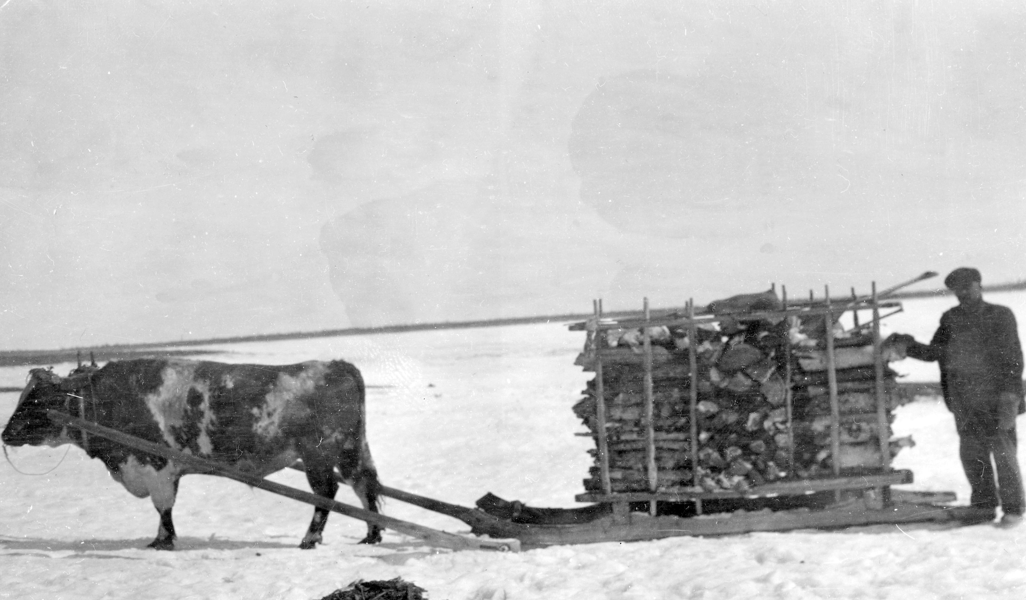 Ox-drawn sled (sledge, stone boat) in the NWT. Original caption: "Fort Simpson Caption: Charlie McAuley, the mate on the MS Fort Severn, hauling cordwood by ox and sled. Fort Simpson. 1921. 653.33 Kb 10.00 x 5.85 inches Credit: Jackson/NWT Archives/N-1979-004-0020"